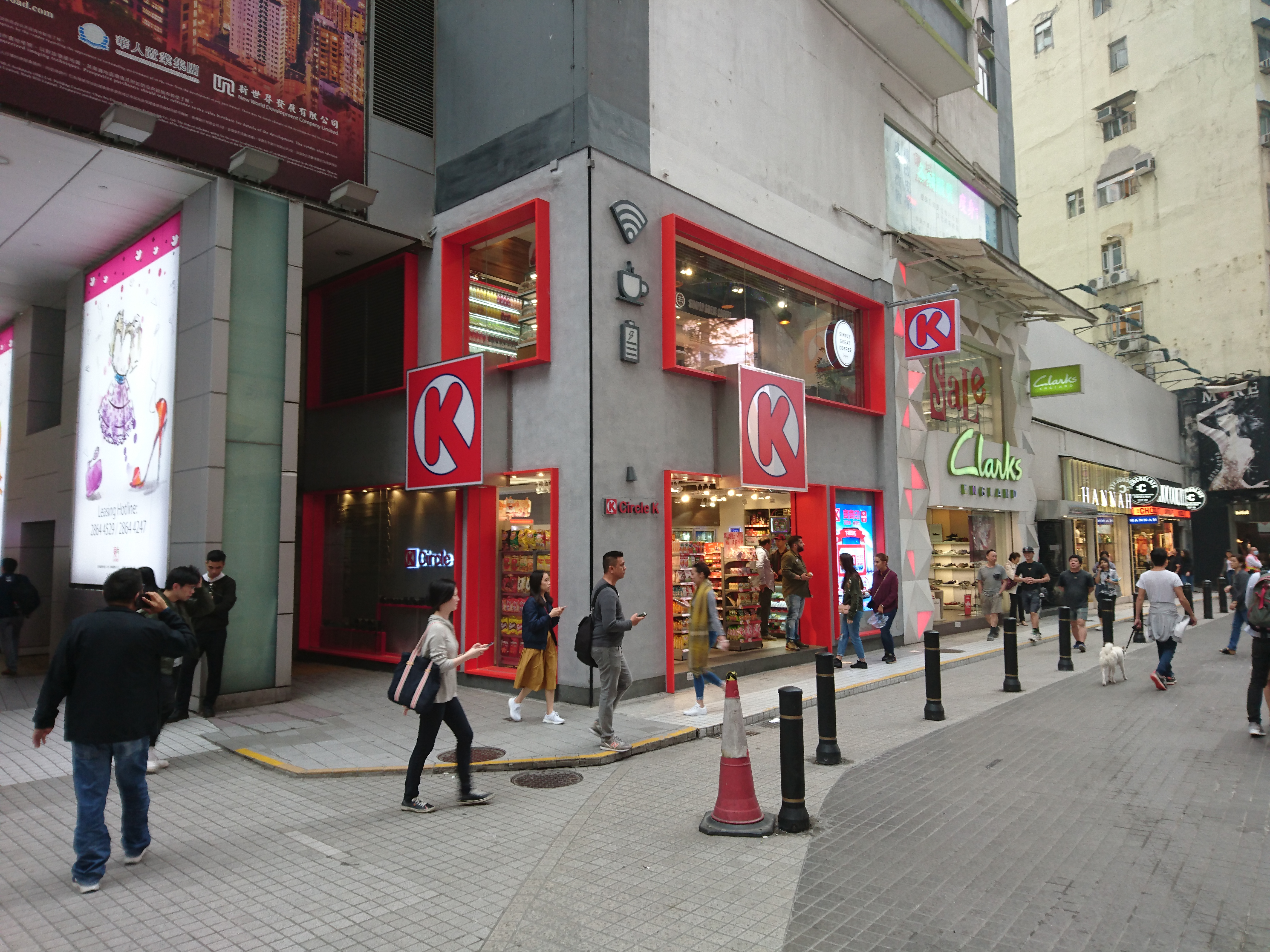 Circle K on East Point Road